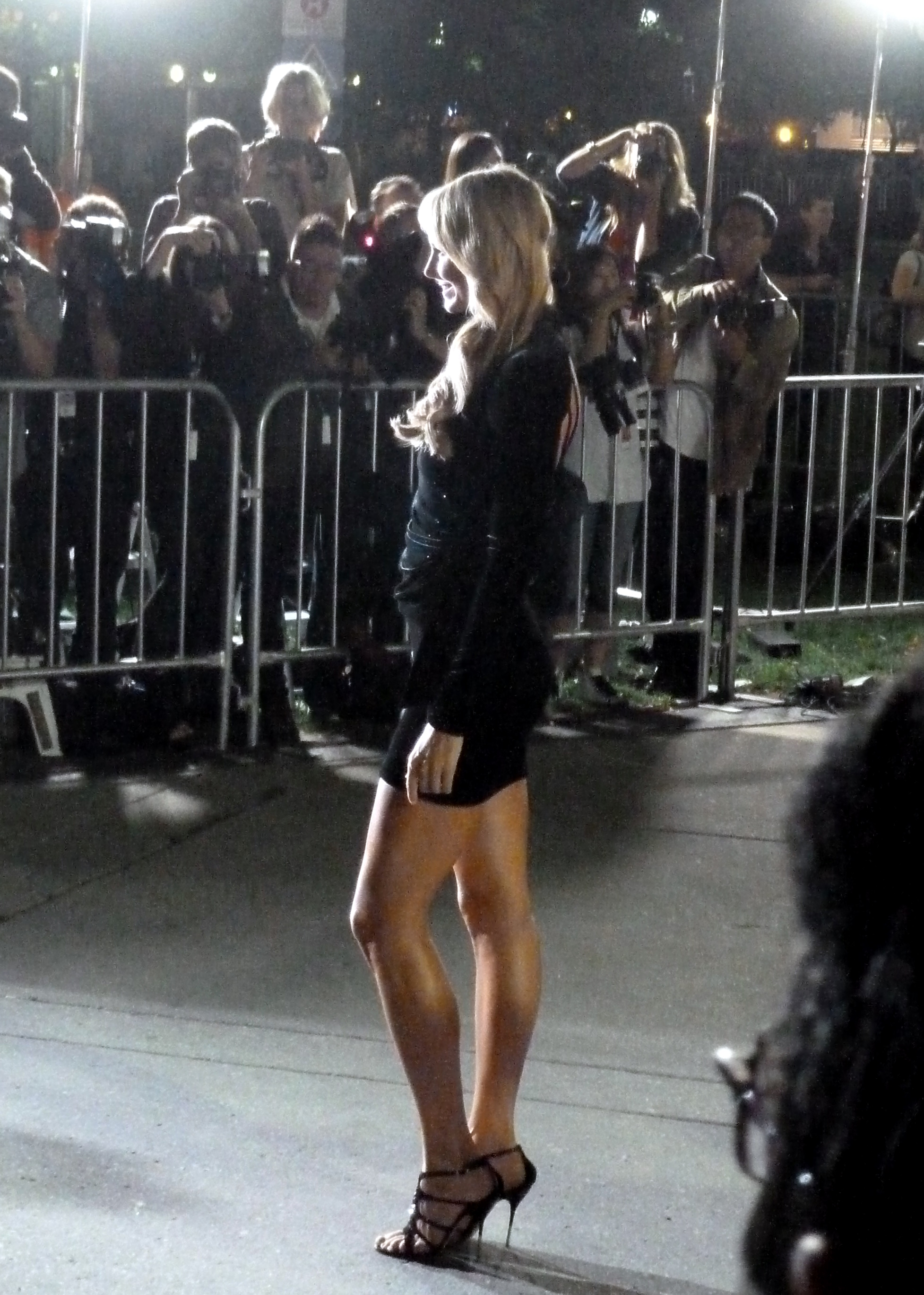 Stacy Keibler at the premiere of Ides of March, Toronto Film Festival 2011